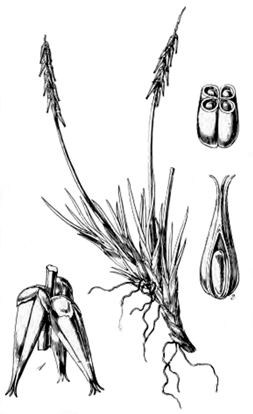 Tetroncium magellanicum